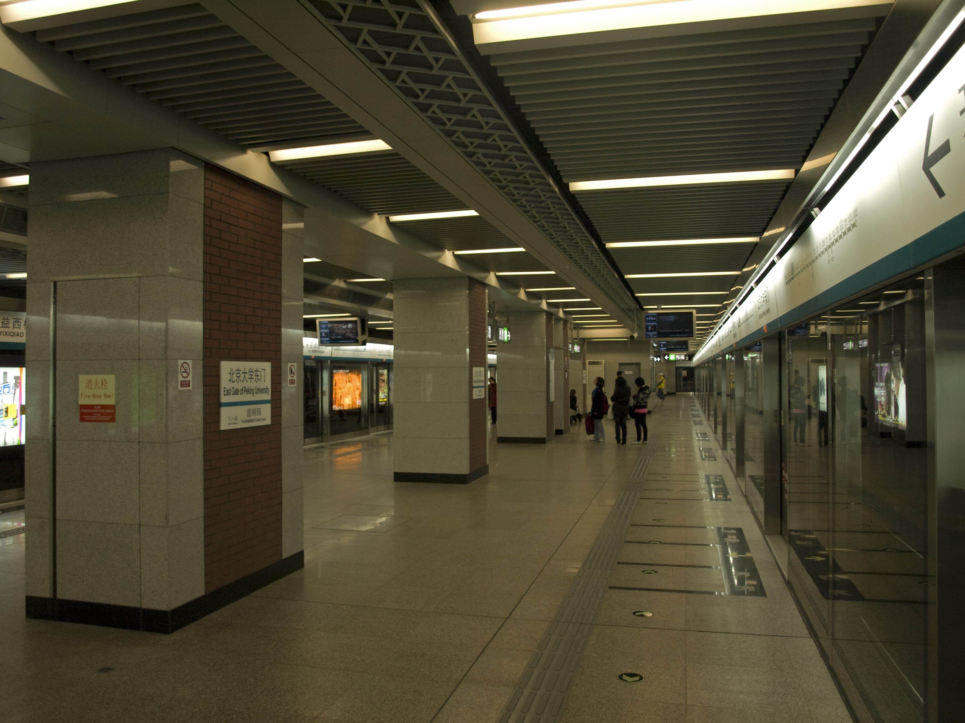 East Gate of Peking University station (Beijing Subway)